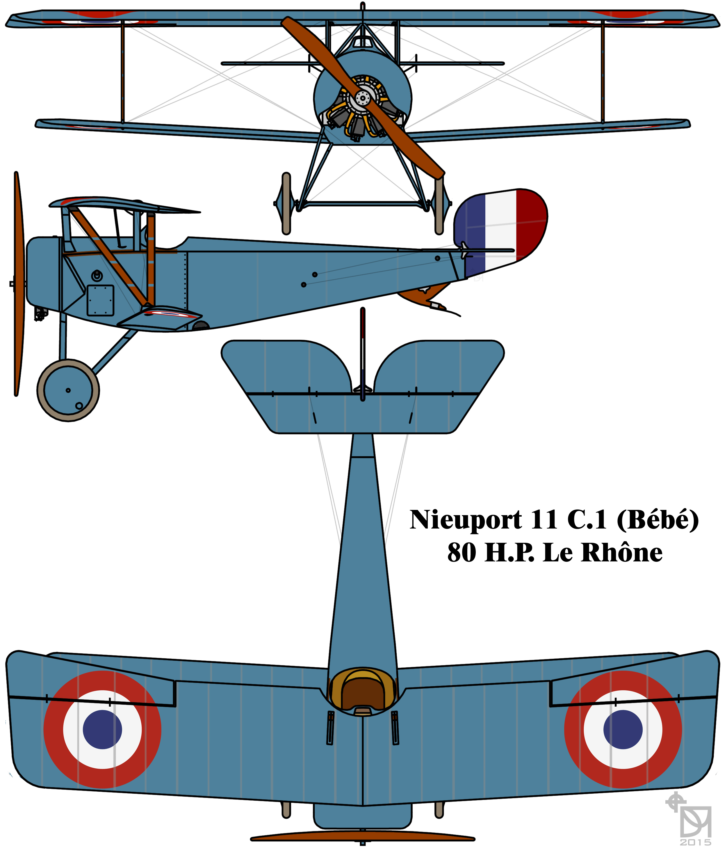 Nieuport N.11 WW1 French fighter colour drawing in horizon blue camouflage